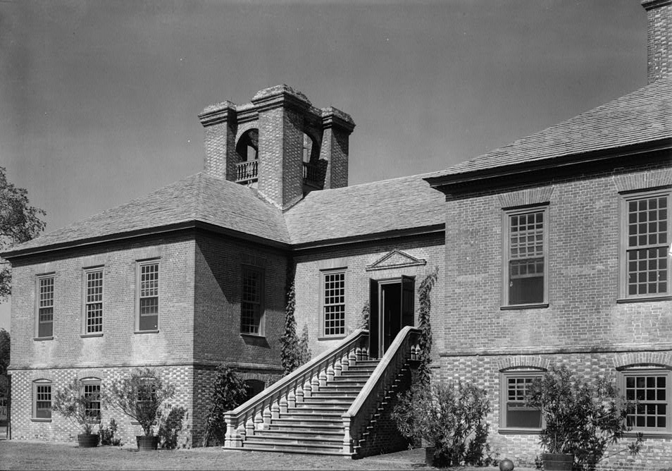 View of the entrance to Stratford Hall, the Lee family plantation, located on State Route 214, Stratford, Westmoreland County, Virginia.